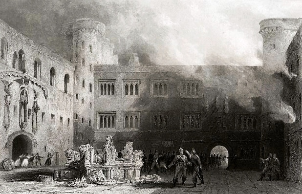 On 1 February 1746 (when James Gordon was 11 years old) his family lived at Linlithgow Palace. Government troops, under the command of Lieutenant General ((Henry Hawley)), were pursuing Jacobites in the area. From "Linlithgow Through Time" by Bruce Jamieson, with the author's permission